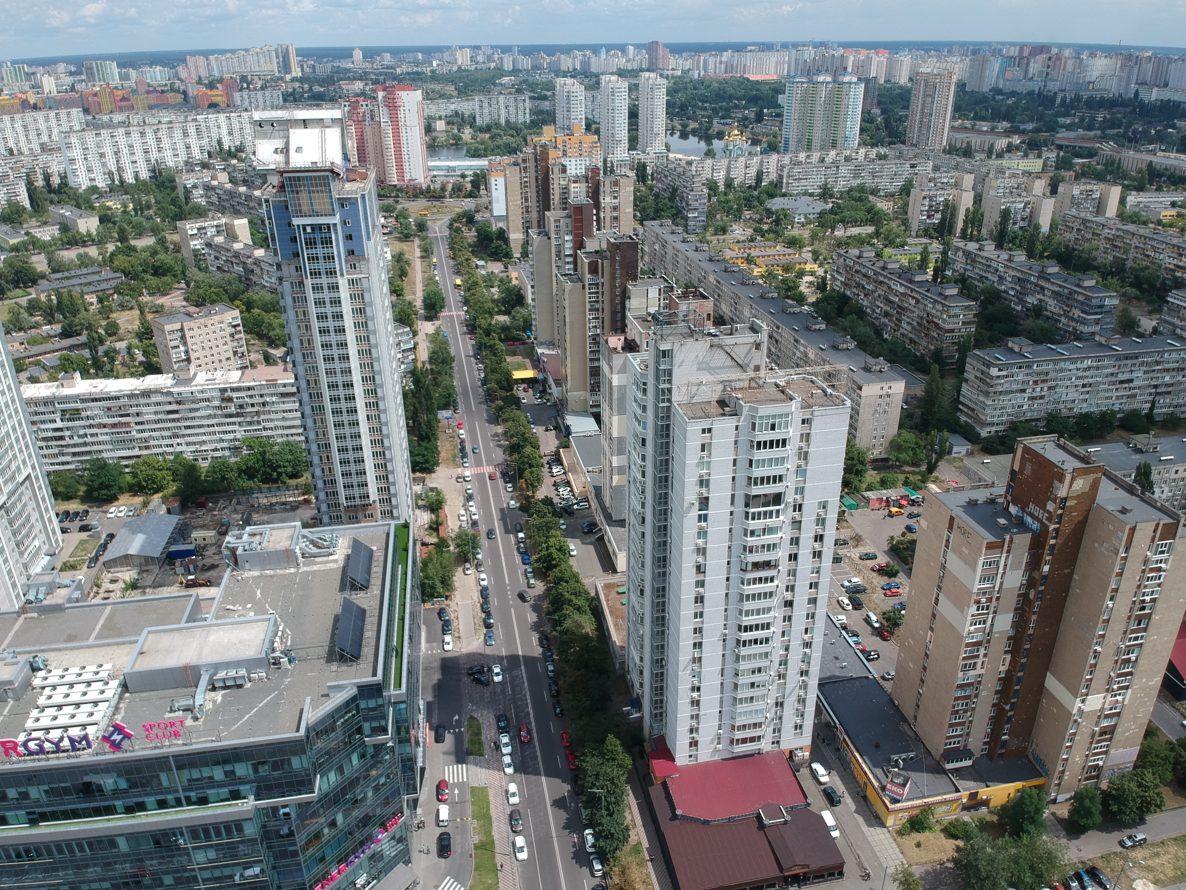 Pavla Tychyny Avenue, Kyiv